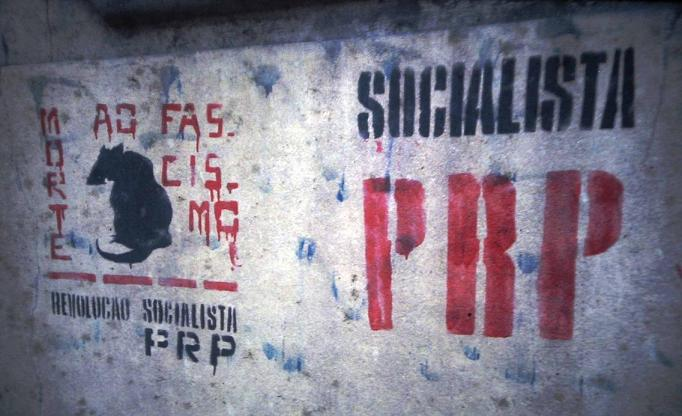 PRP Death to fascism